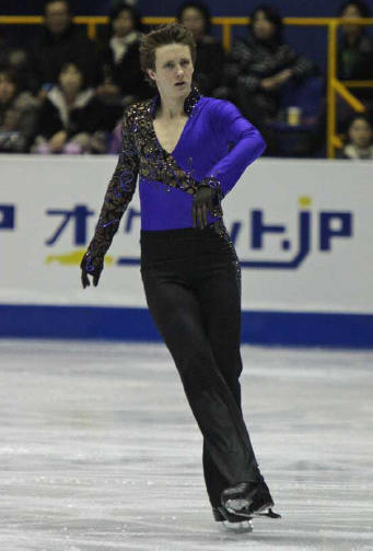 Abbott at the 2008-2009 Grand Prix Final.